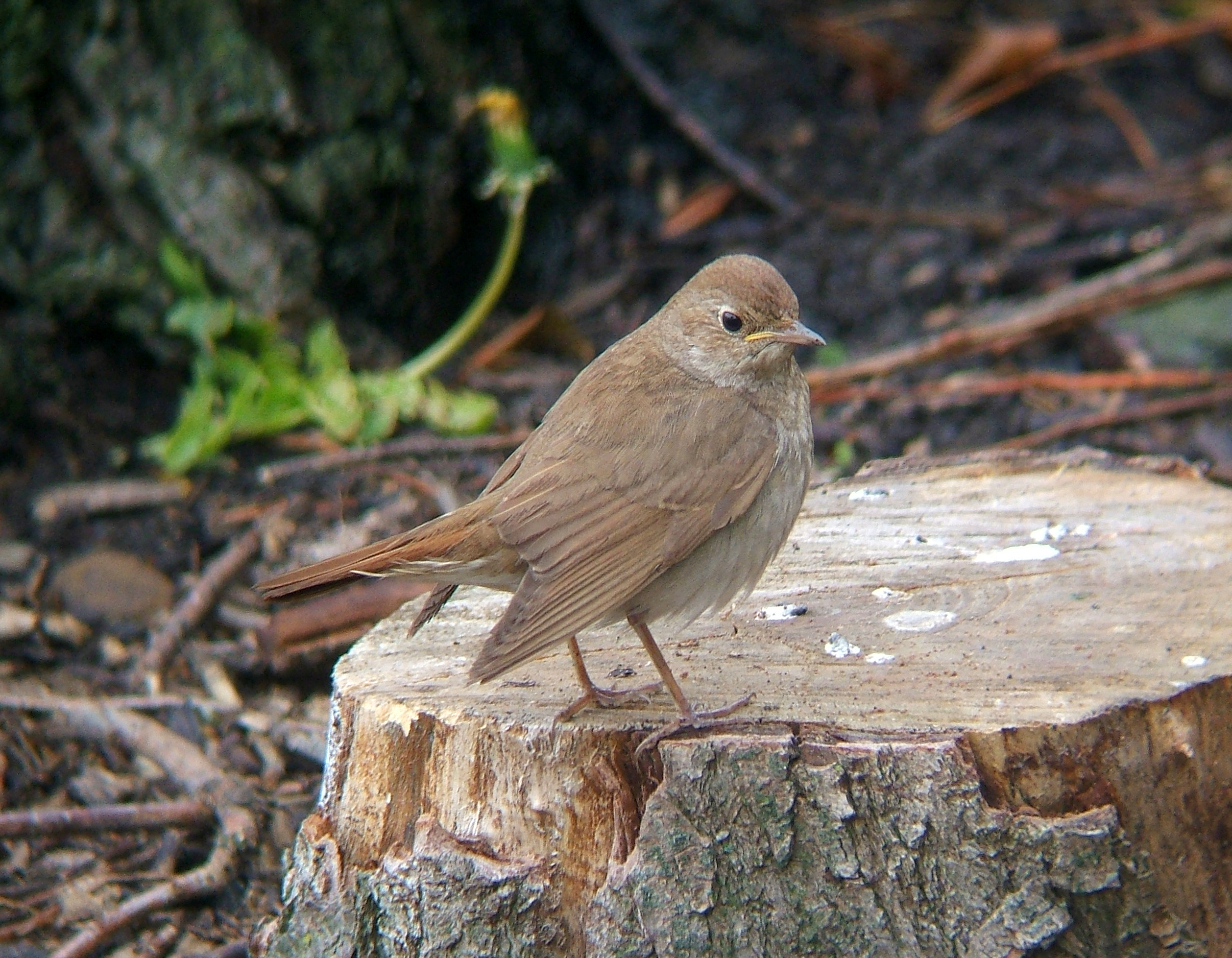 Thrush Nightingale Luscinia luscinia, Hartlepool Headland, Co Durham, UK